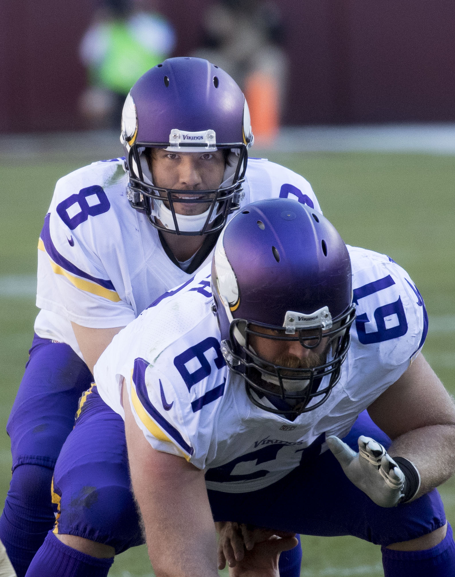 Vikings at Redskins 11/13/16